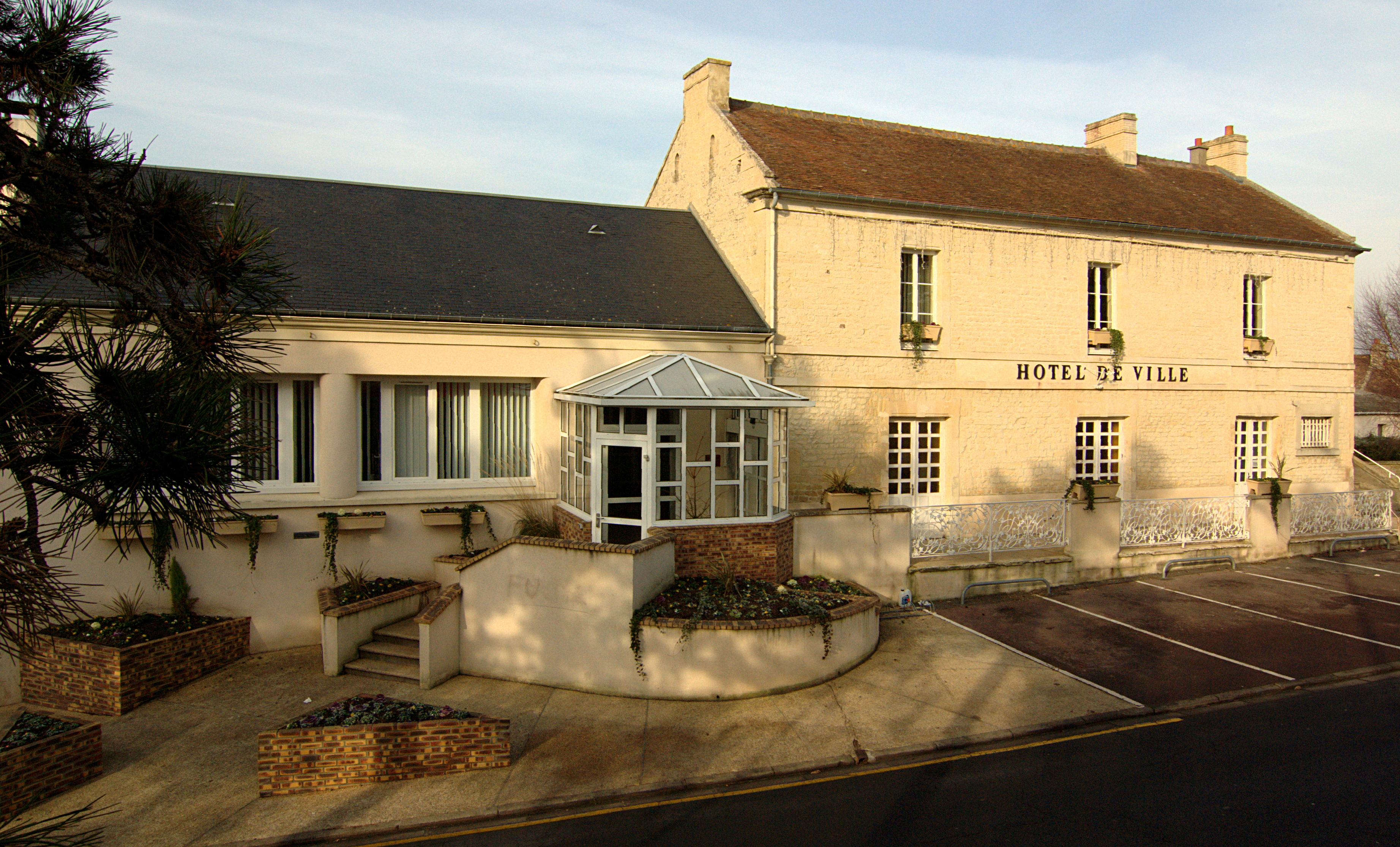 In Fleury-sur-Orne village, the Town hall.